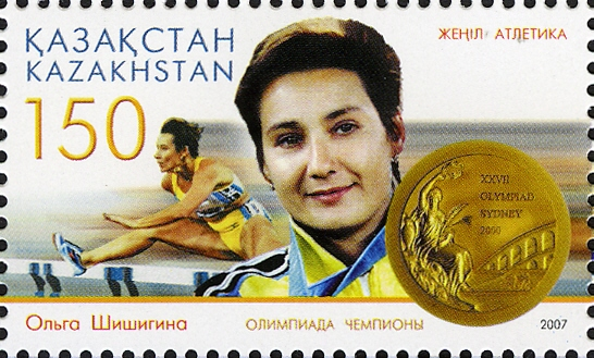 Olympic Champions from Kazakhstan - Olga Shishigina